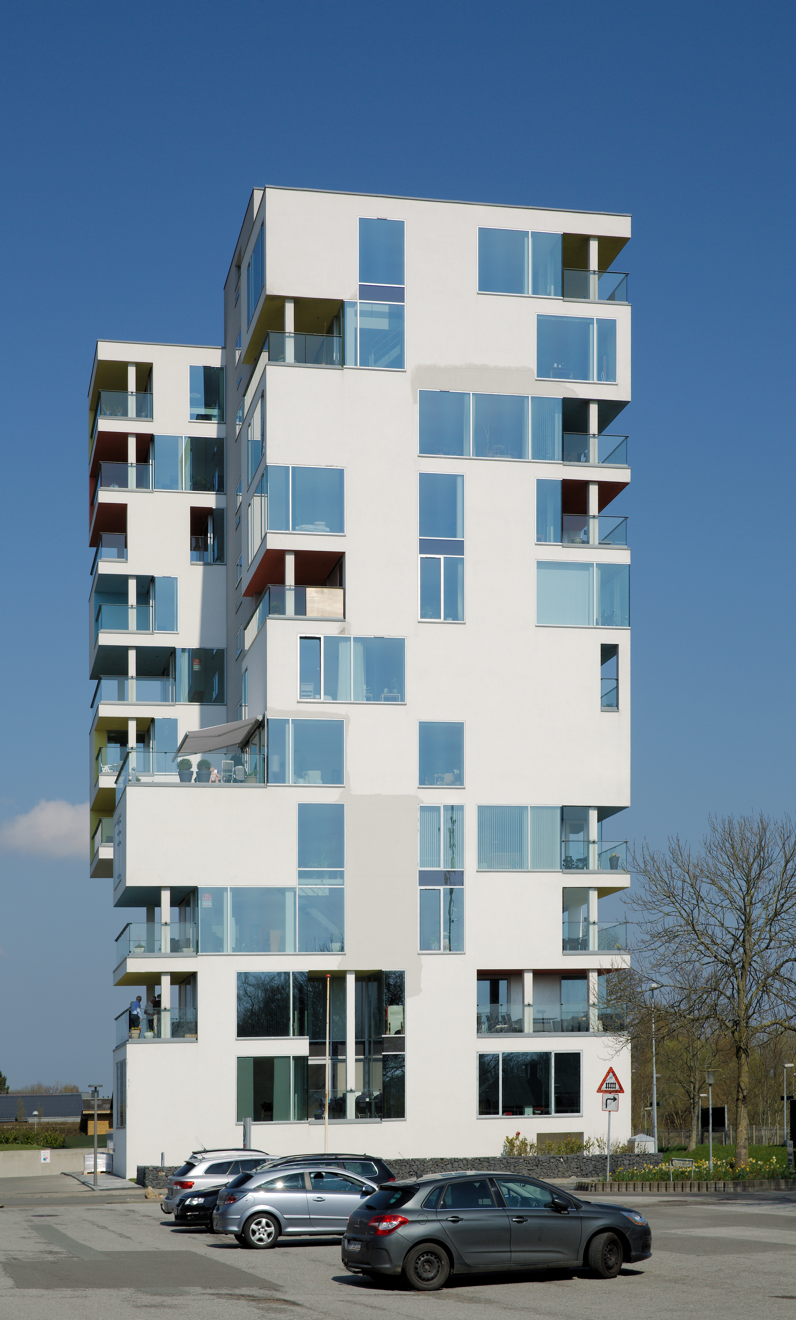 Siloetten in Løgten north of Aarhus, architect CF Moller in collaboration with Christian Carlsen Architects.